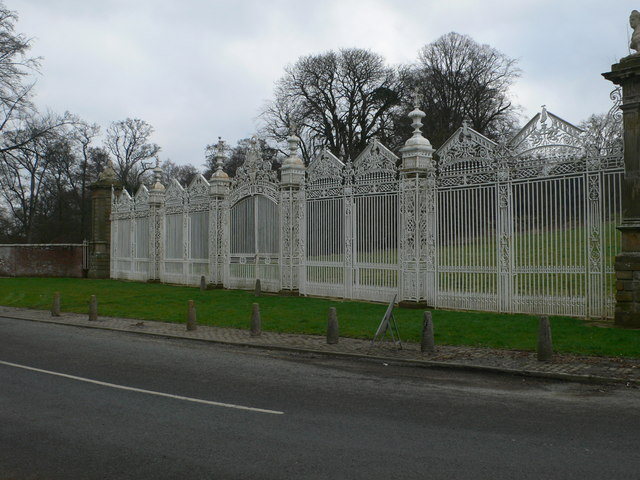 White Gates, Leeswood Hall, near to Llong, Flintshire/Sir y Fflint, Great Britain. Another example of the Davies Brothers of Bersham's wrought iron work. This screen of ironwork is 100ft long and 17ft high. The Davies' also made gates for Sandringham. The gates are Grade I listed.